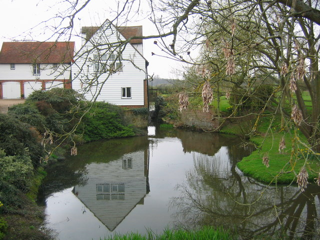 Chiddingstone Mill - Formerly Cranstead Mill, near Bough Beech, Kent